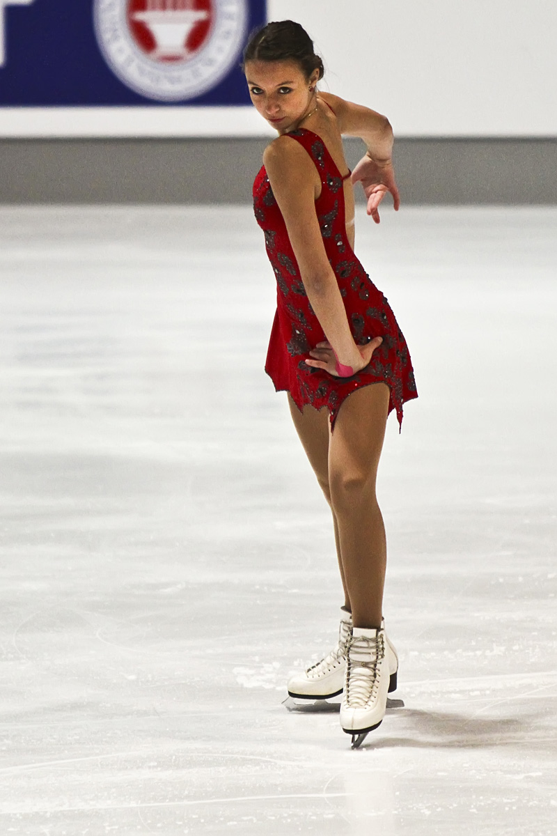 Nicole Schott (GER) at the German Championships in figure skating 2012